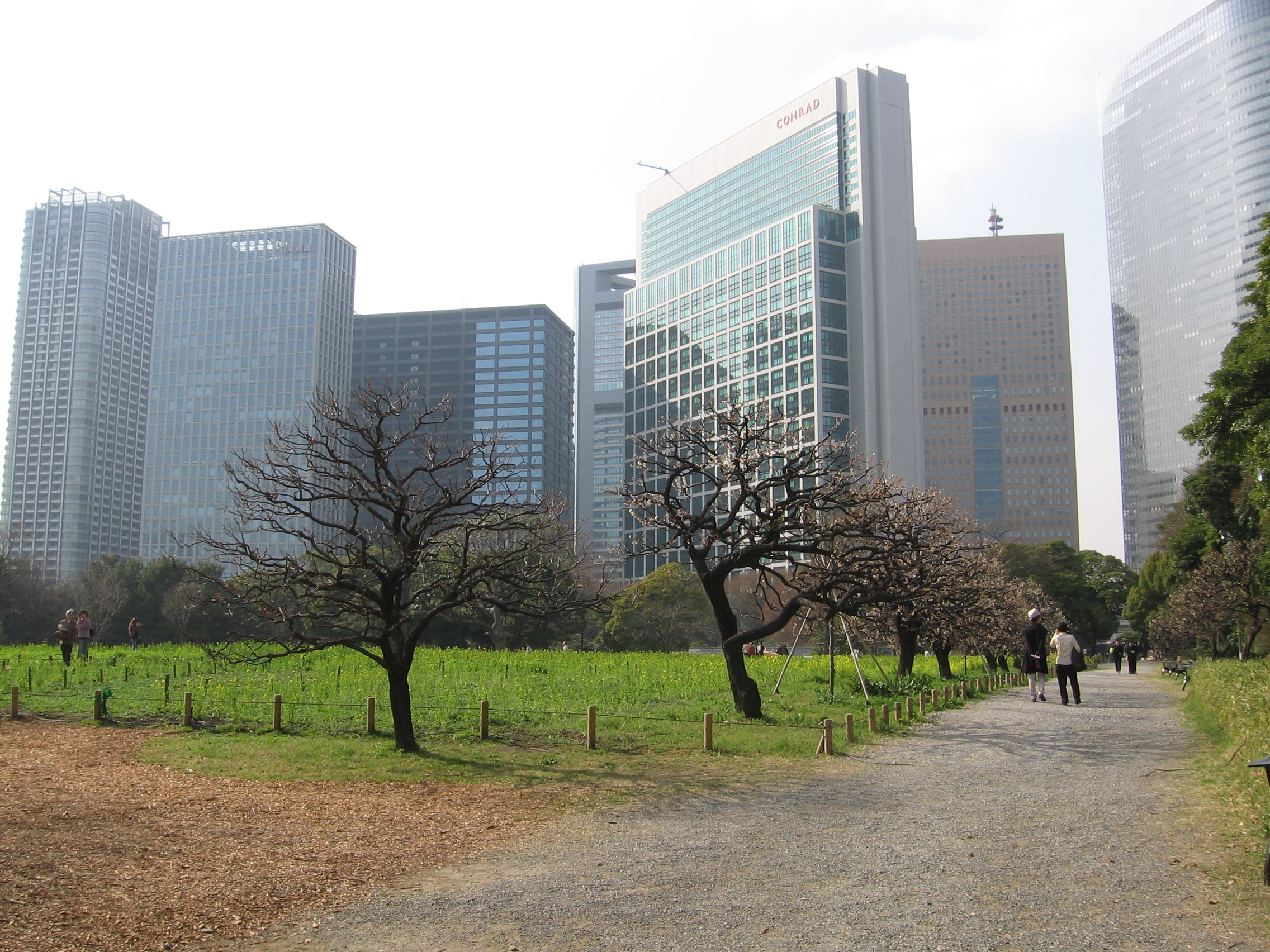 a view in Chuo-Ward,Japan